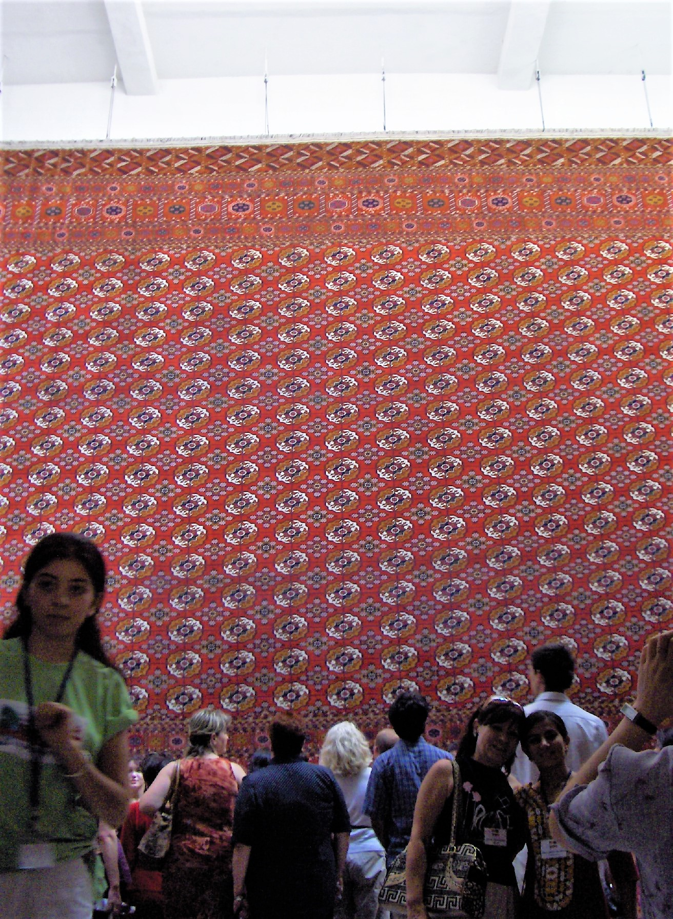 The largest carpet - Ashgabat, Turkmenistan